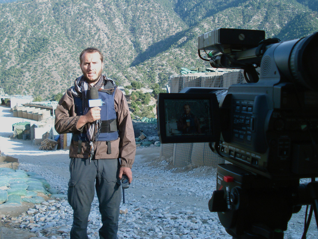 Nico Piro - 173 Airborne Brigade US Army - Provincia di Kunar Marzo 2008 - Kunar Province, March 2008